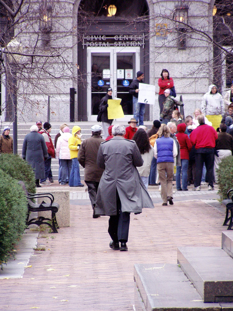 Mayor of Duluth, MN (Herb Bergson) walks to Anti-Poverty Rally 11/9/05